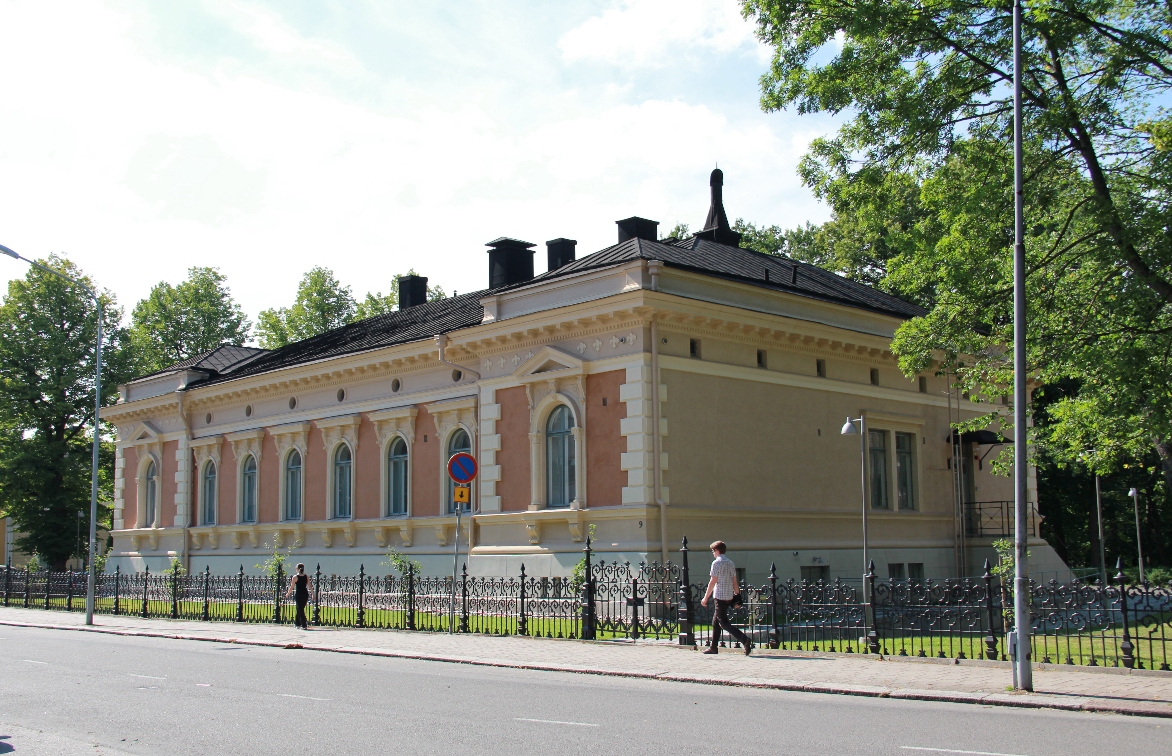 The official residence of the Archbishop of Turku in the Evangelical Lutheran Church of Finland, Turku, Finland. Completed in 1887. Designed by architects Johan Jacob Ahrenberg, Sebastian Gripenberg and Ludvig Isak Lindqvist.